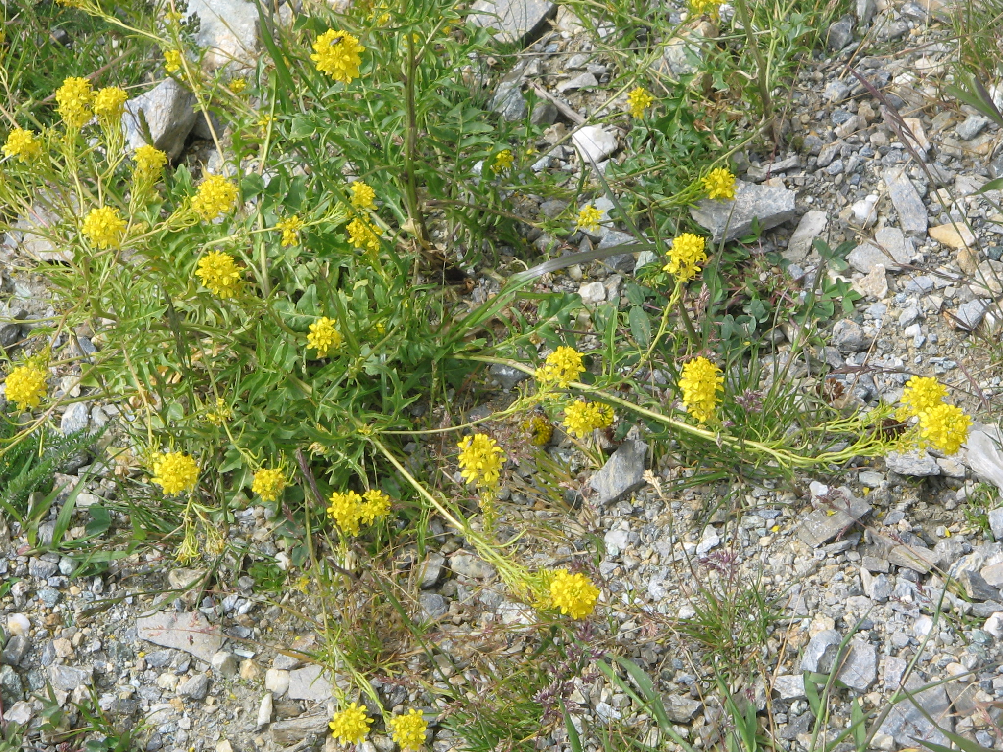 Sisymbrium austriacum